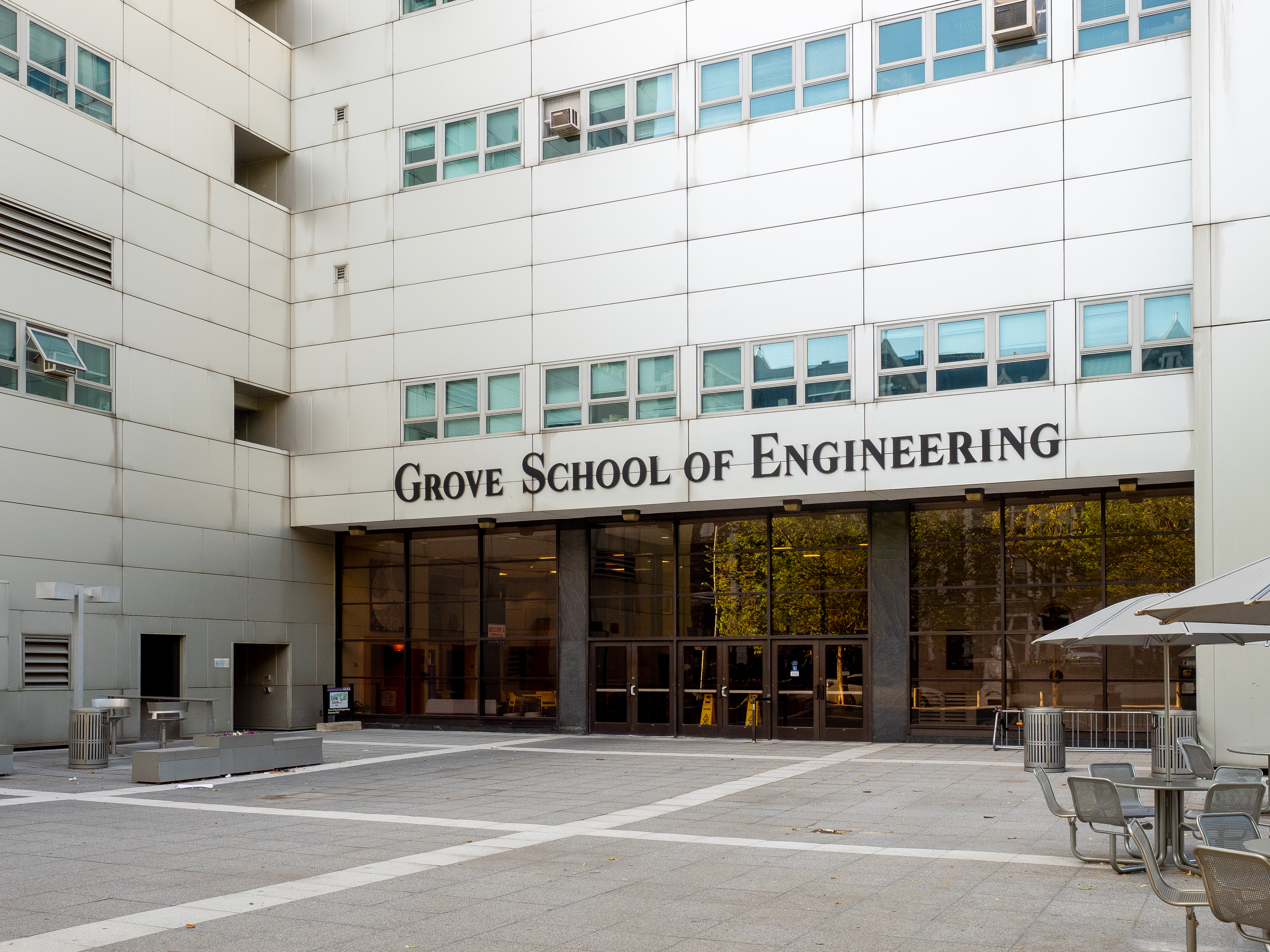 Hamilton Heights, Manhattan, NYC